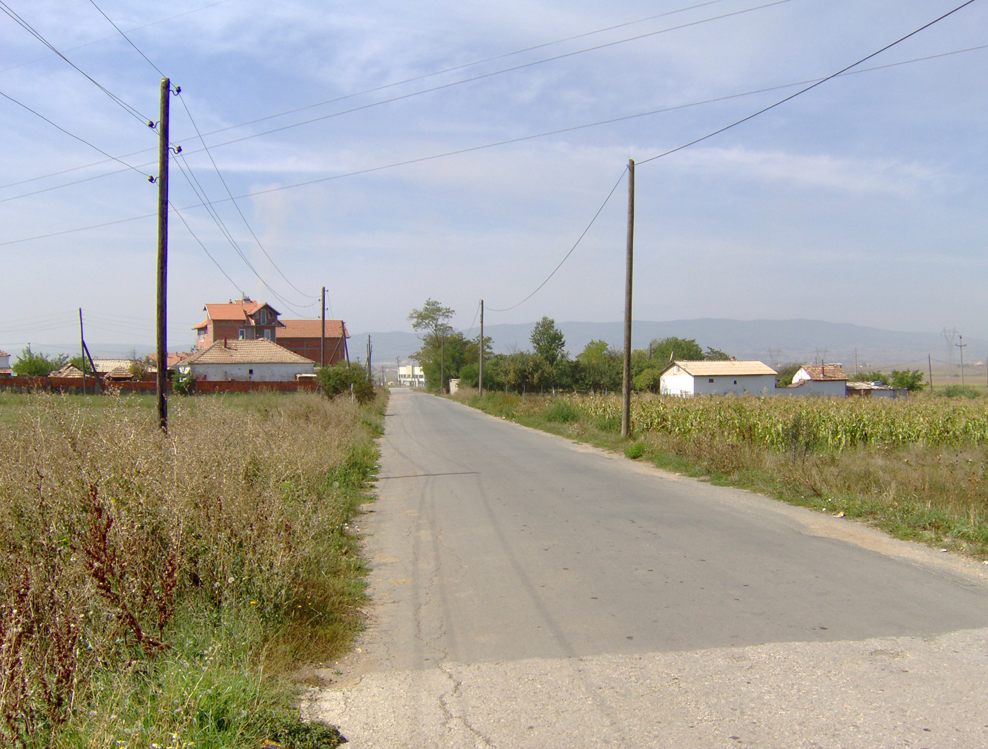 Road Tomb of Sultan Murad Khan I: Tomb is on right, behind the trees. (Republic of Kosova / Pristina Surroundings) 2006